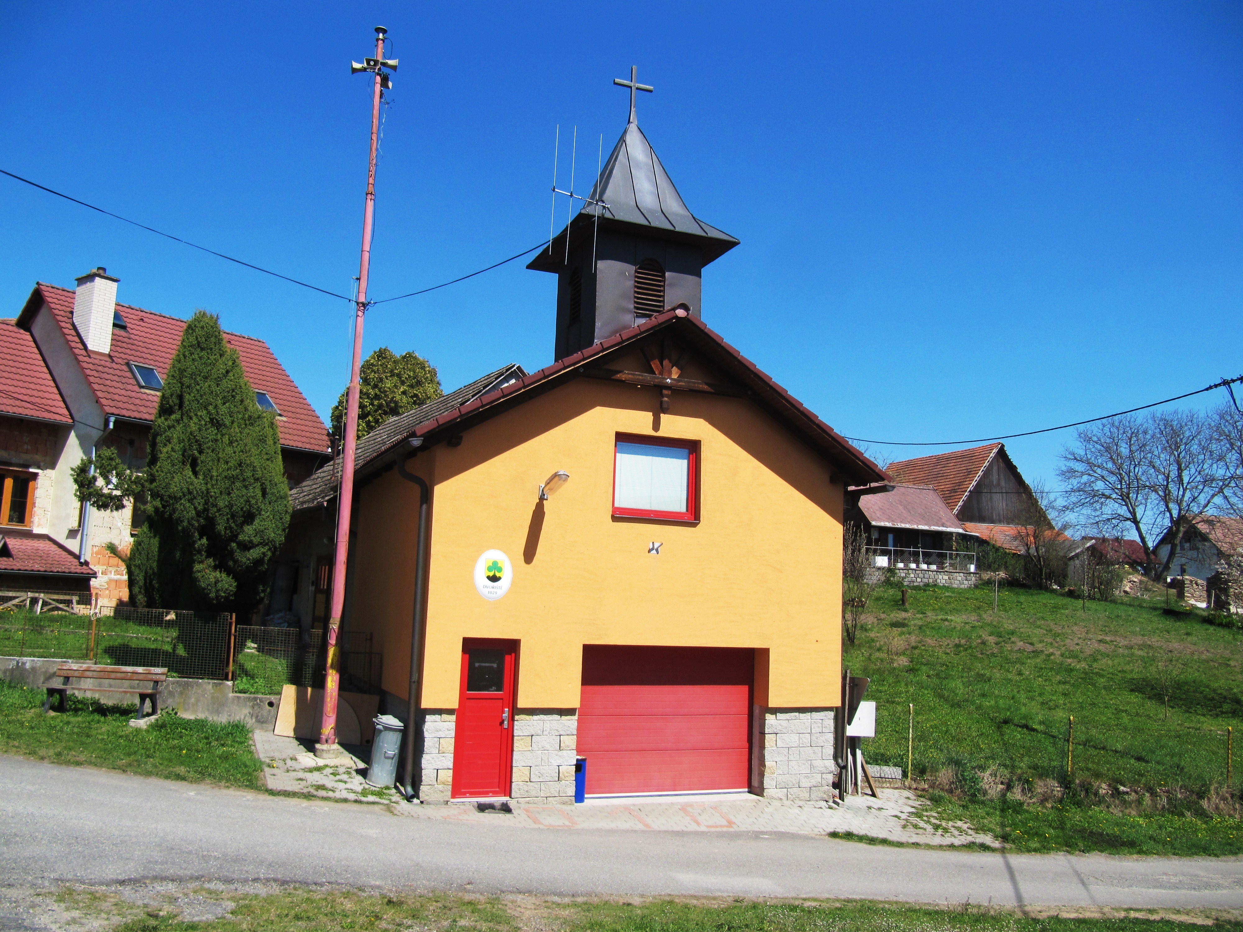 Bystřice nad Pernštejnem, Žďár nad Sázavou District, Czechia, part Dvořiště.